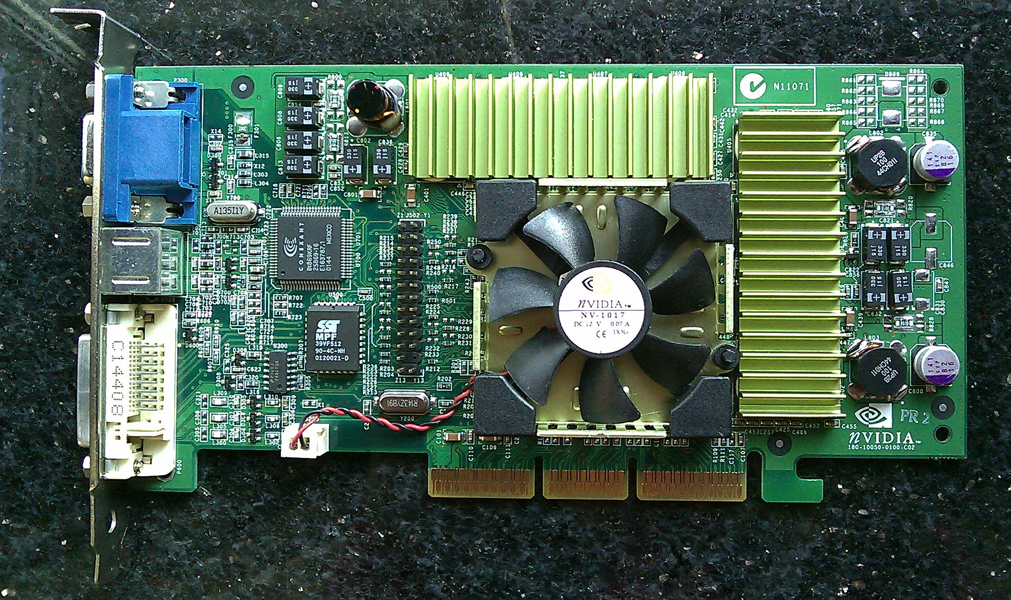 NVIDIA GeForce3 Ti 500 Graphic card